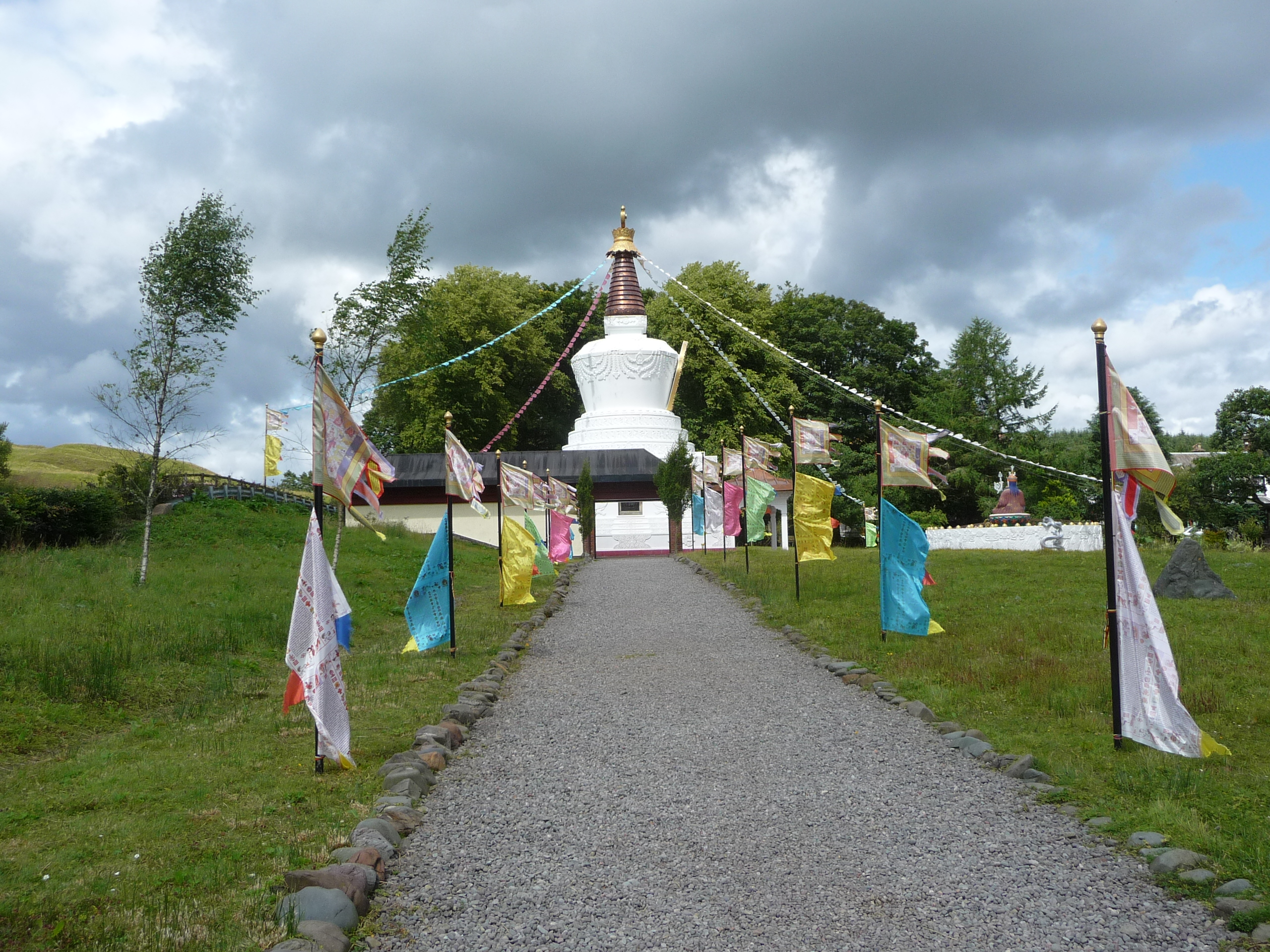 Kagyu Samyé Ling Monastery and Tibetan Centre at Eskdalemuir, Dumfries and Galloway, Scotland